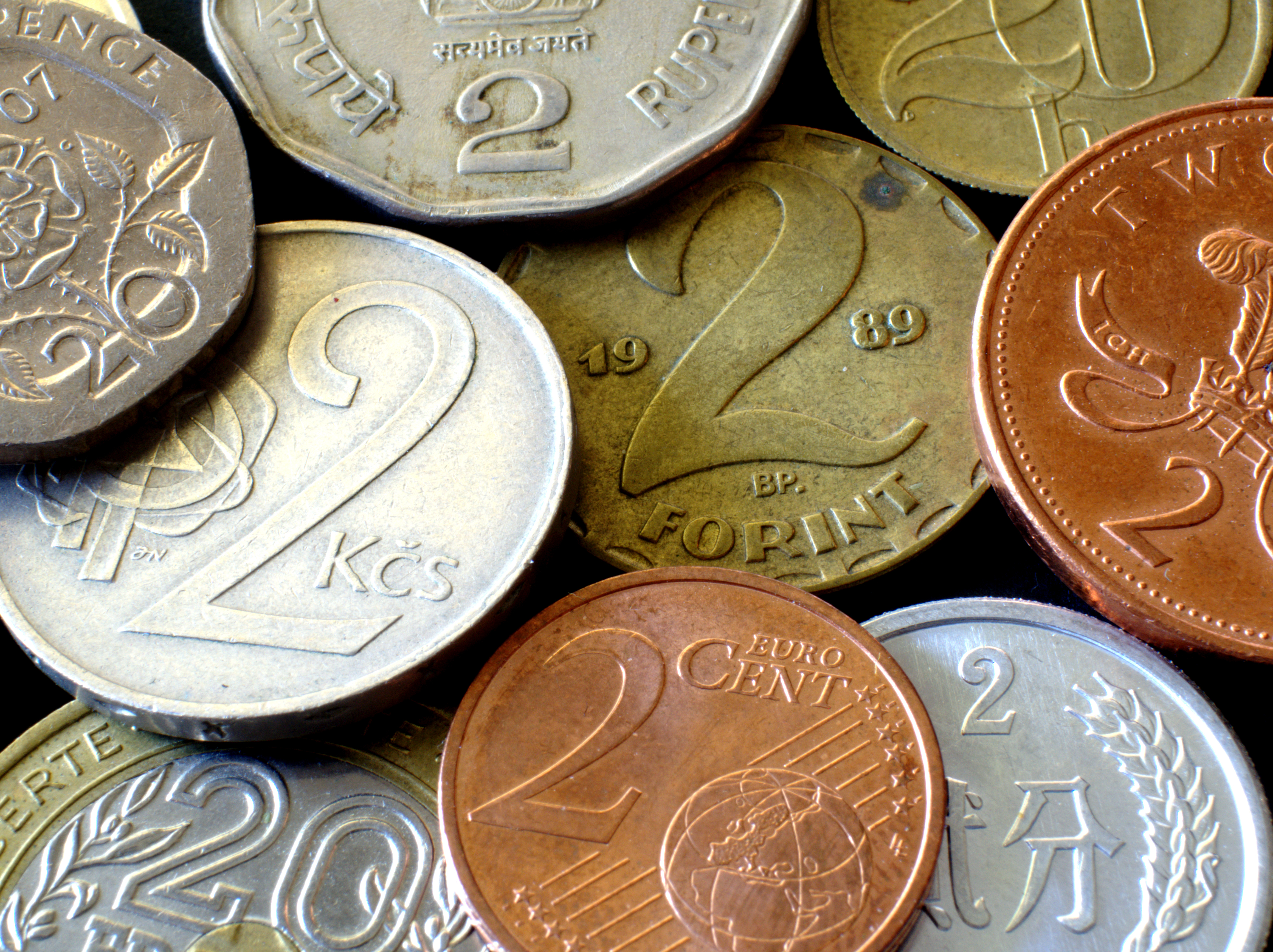 Coins from many countries, all with number 2